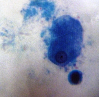 Amoebic infections in humans